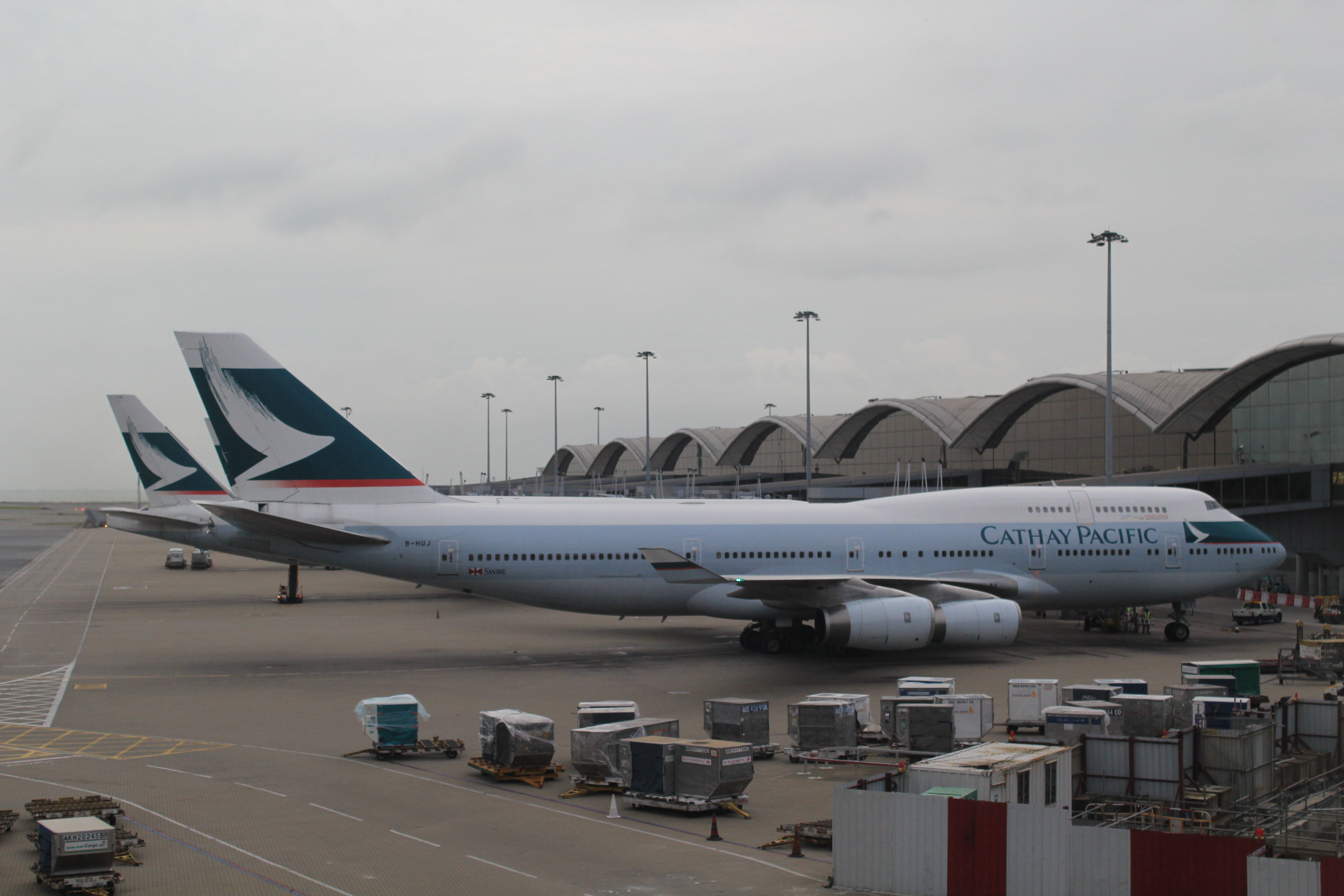 A Boeing 747-467 registration B-HUJ belonging to Cathay Pacific is parked at gate at Hong Kong International Airport.